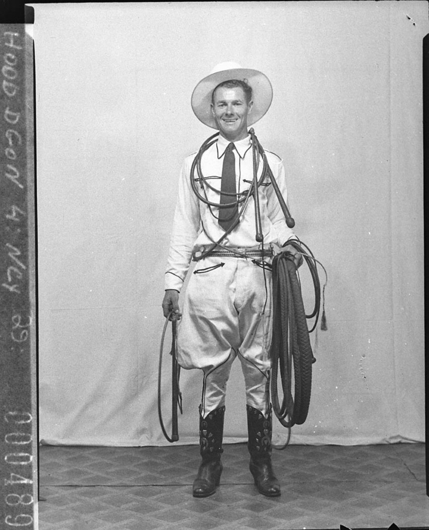 Tex Morton's Cowboy Roadshow. A cowboy